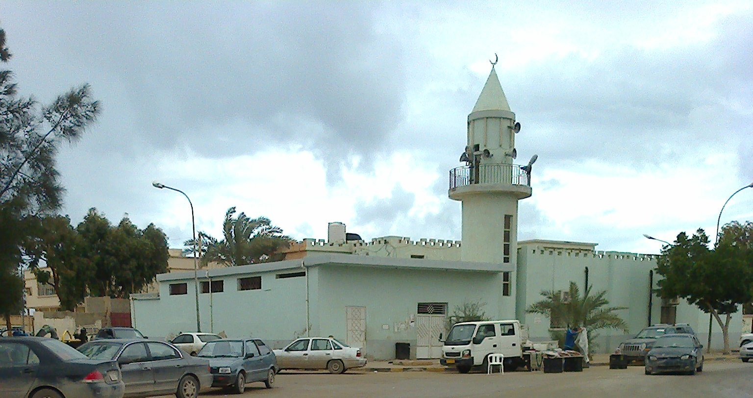 Hisham ibn al As mosque, Benghazi.